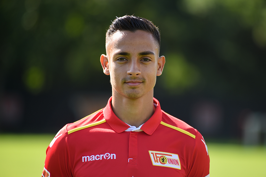 Teamfoto 2016/17